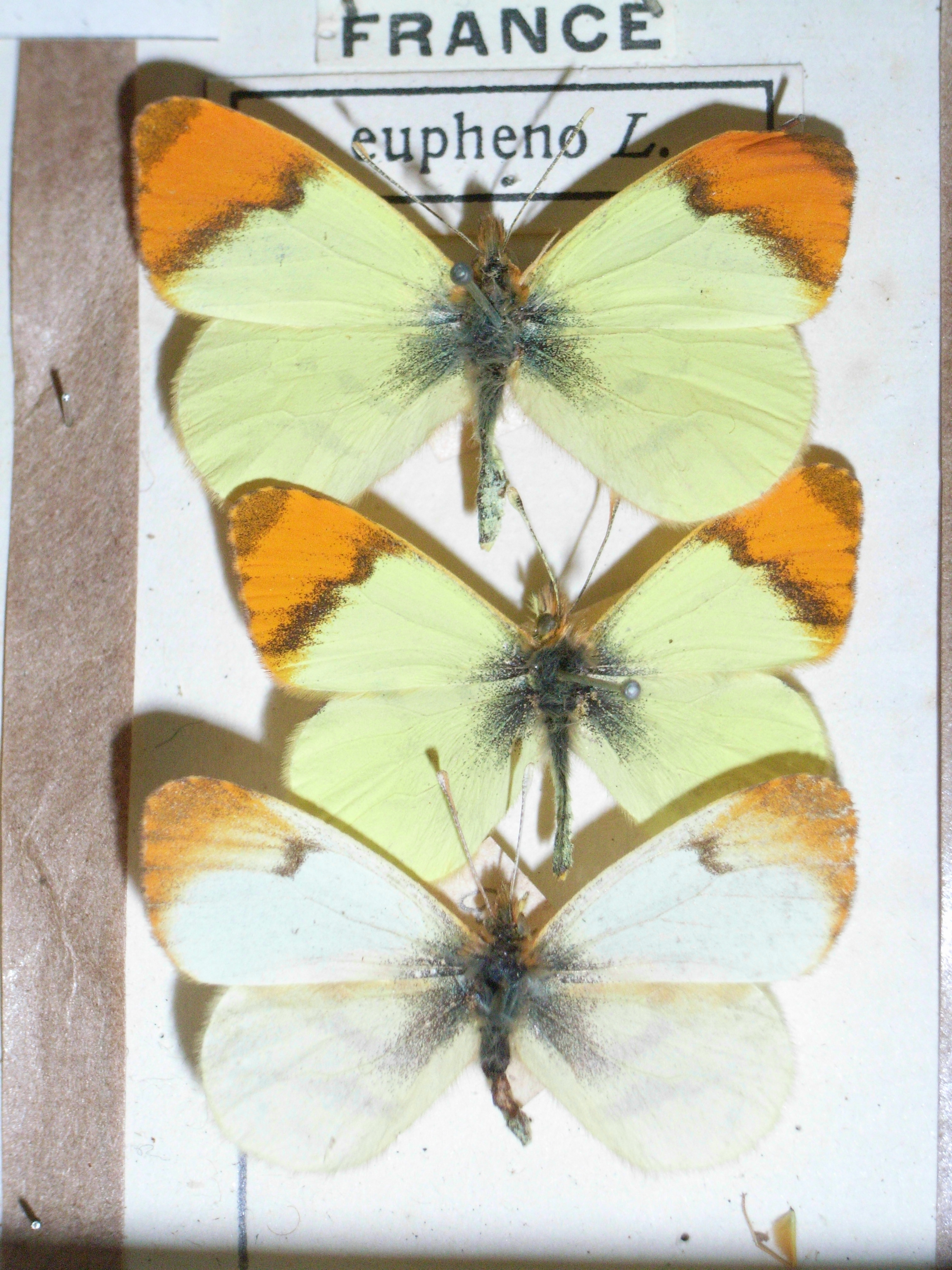 Anthocharis belia (Linnaeus, 1767)